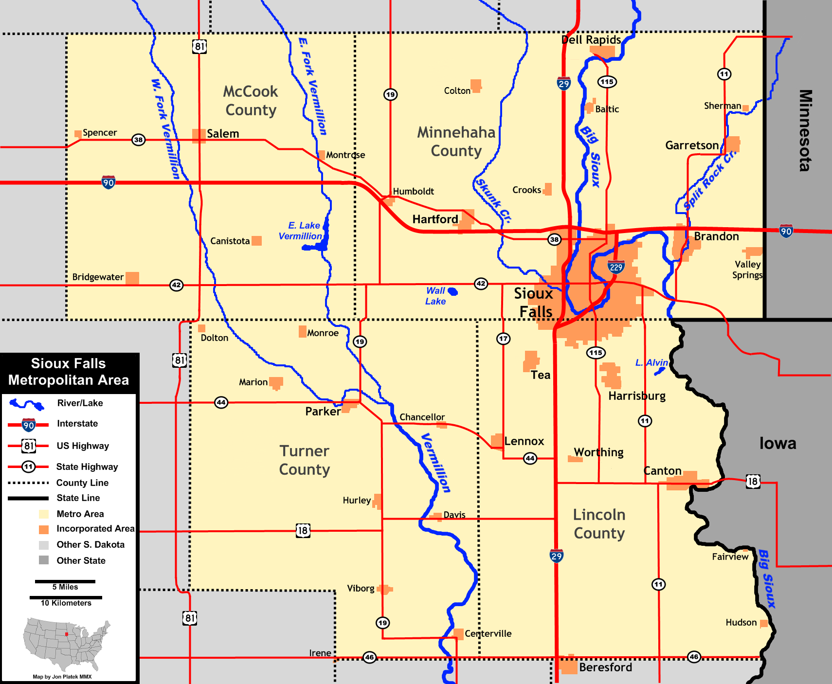 Map of the Sioux Falls Metropolitan Area in South Dakota, USA. The US census bureau defines the area as being made up of Minnehaha, Lincoln, McCook, and Turner counties, all in South Dakota.